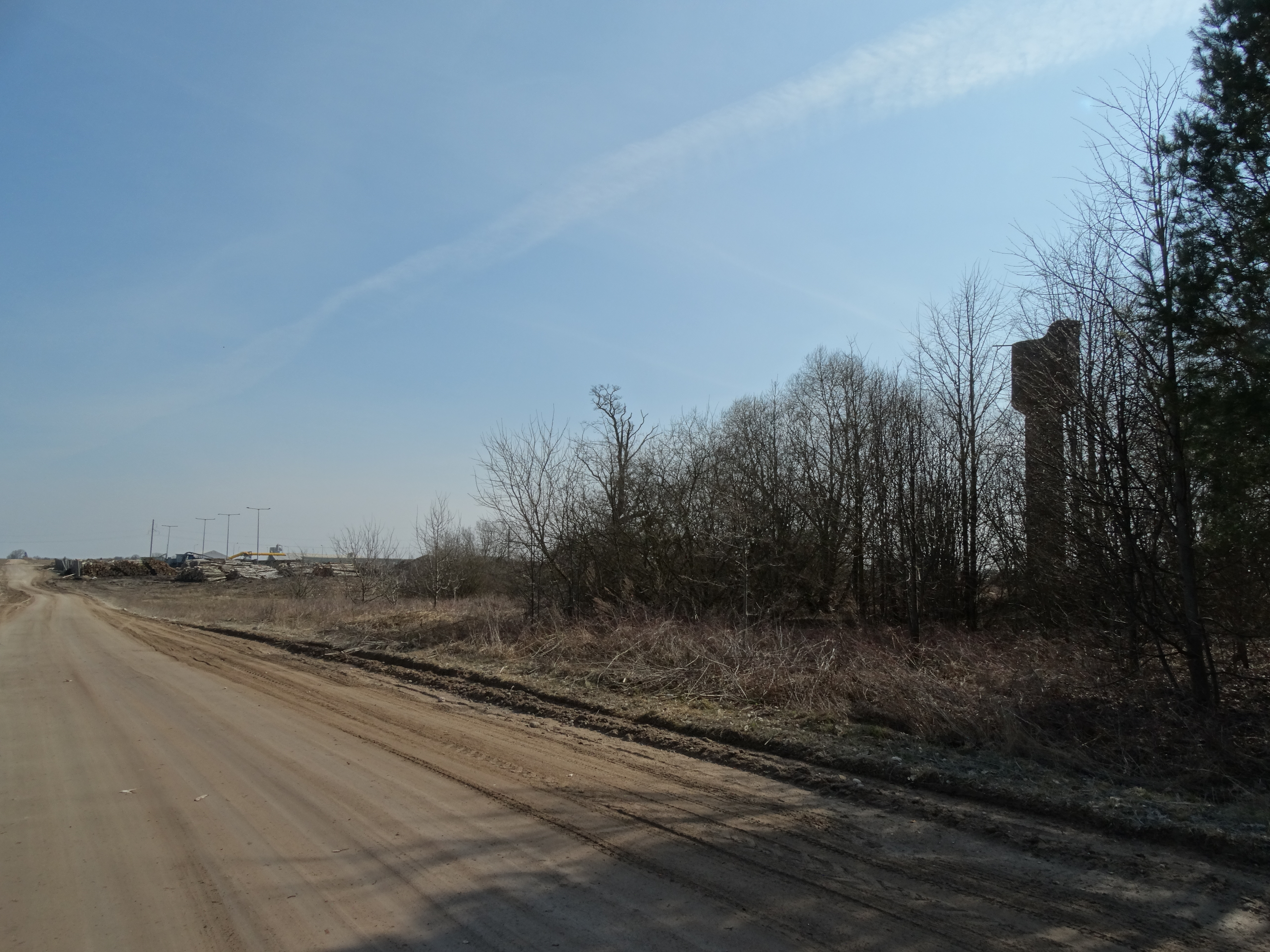 Bernotiškiai, Ukmergė district, Lithuania